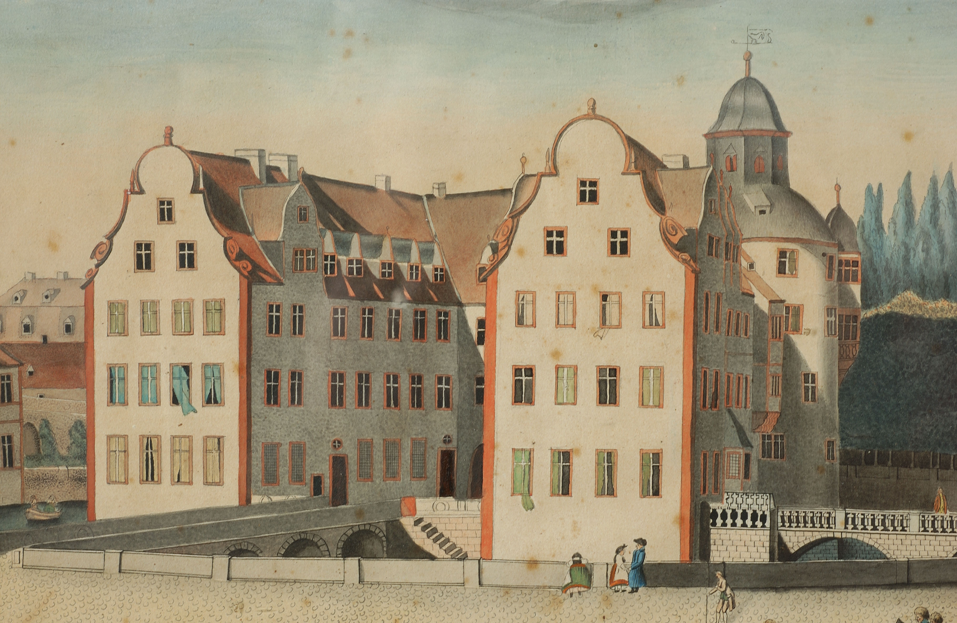 Painting of the Château de Bouxwiller in Bouxwiller, Bas-Rhin, France